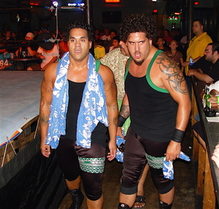 Samoan Fight Club at an FCW event in Ft Myers. PHOTO BY ROB BEUKEMA